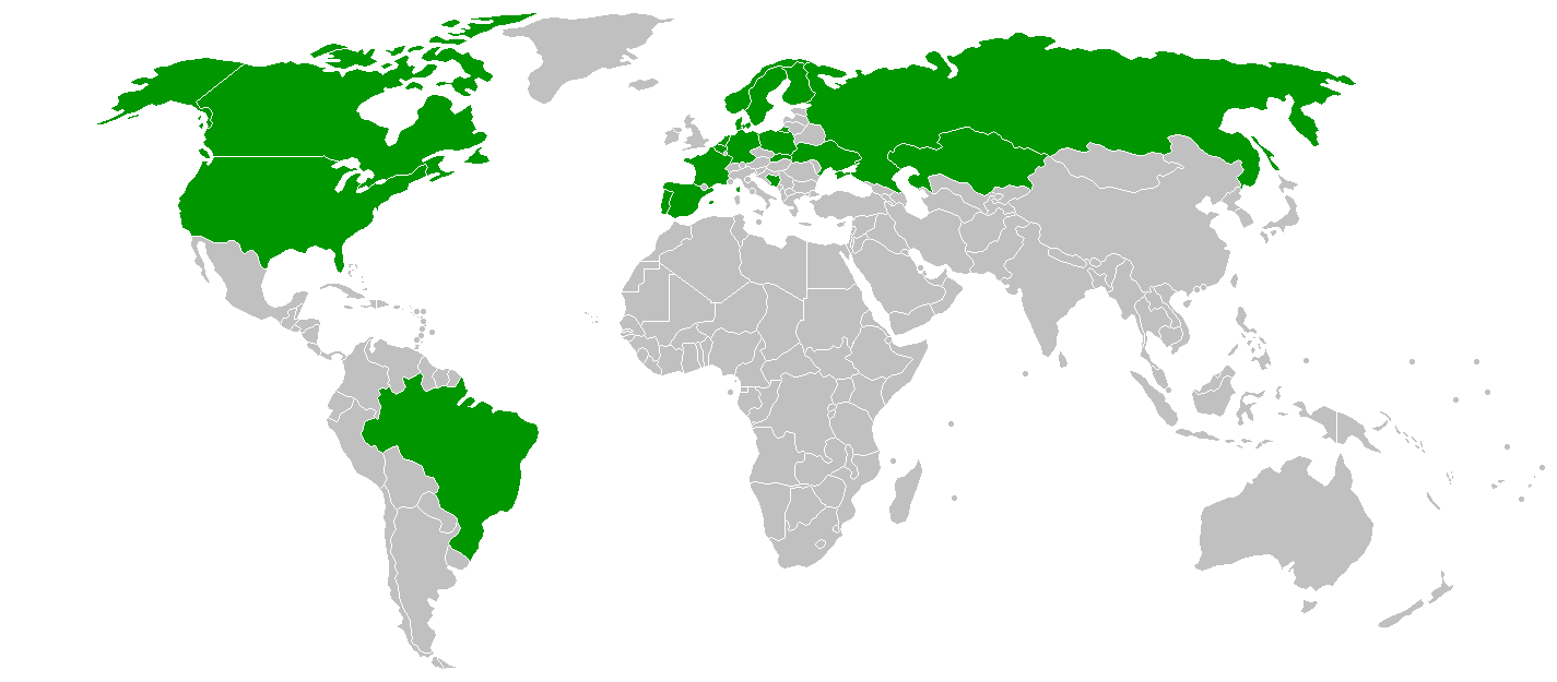 Nationalities of ESL One Cologne 2016 participants